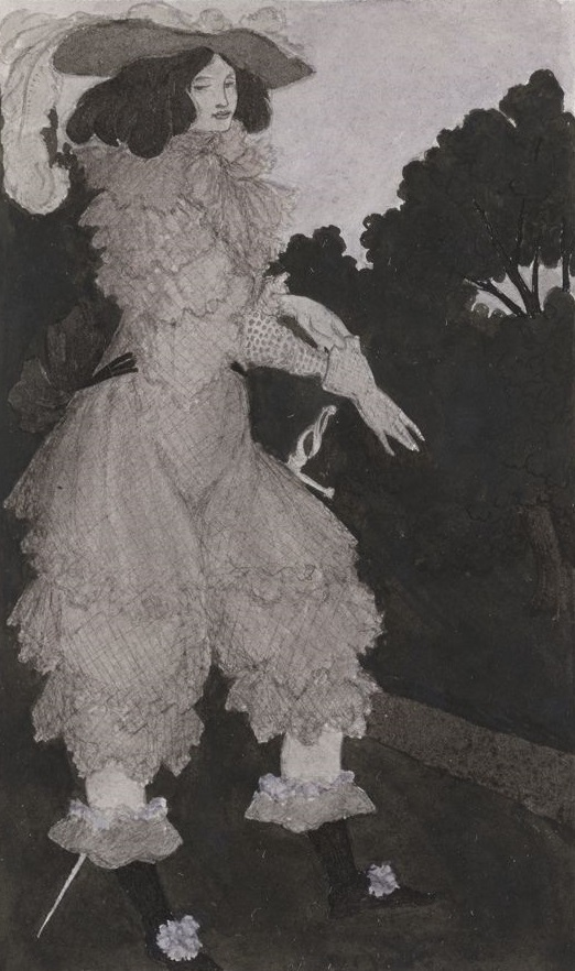 Mademoiselle de Maupin, for "Six Drawings Illustrating Théophile Gautier's Romance 'Mademoiselle de Maupin".